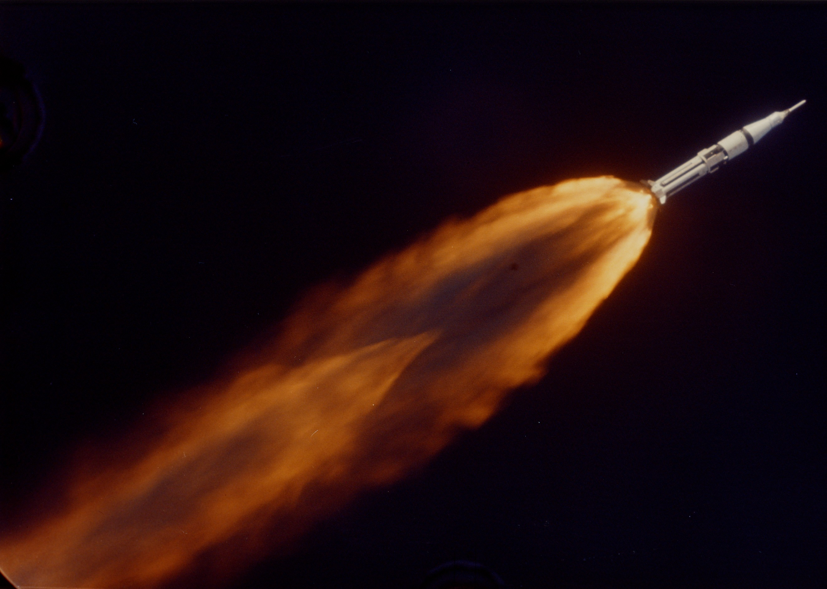 Launching - October 11, 1968, at 11:03 am EST, Complex 34. The Saturn Launch Vehicle, carrying the Apollo 7 spacecraft, is photographed at more than 35,000 feet above the Atlantic Ocean from an C-135 aircraft. Aboard the spacecraft were Astronauts Walter Schirra, Donn Eisele, and Walter Cunningham. The Airborne Lightweight Optical Tracking System is an airborne precision photographic system that can provide information on launch vehicles during the early launch stage, separation and reentry phases of the flight.